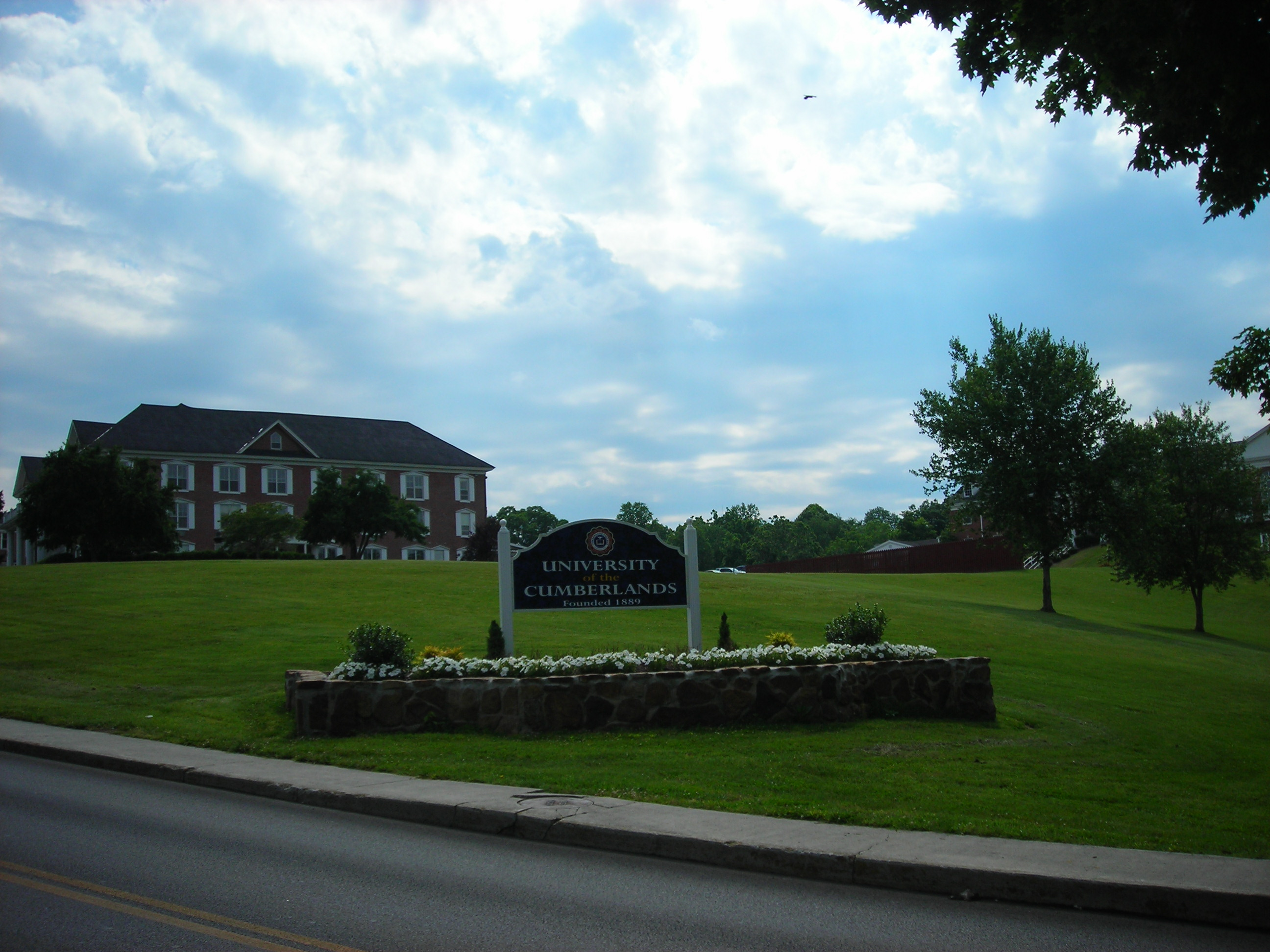 The University of the Cumberlands (formerly Cumberland College), is located on either side of Main Street, in the small town of Williamsburg, Kentucky.